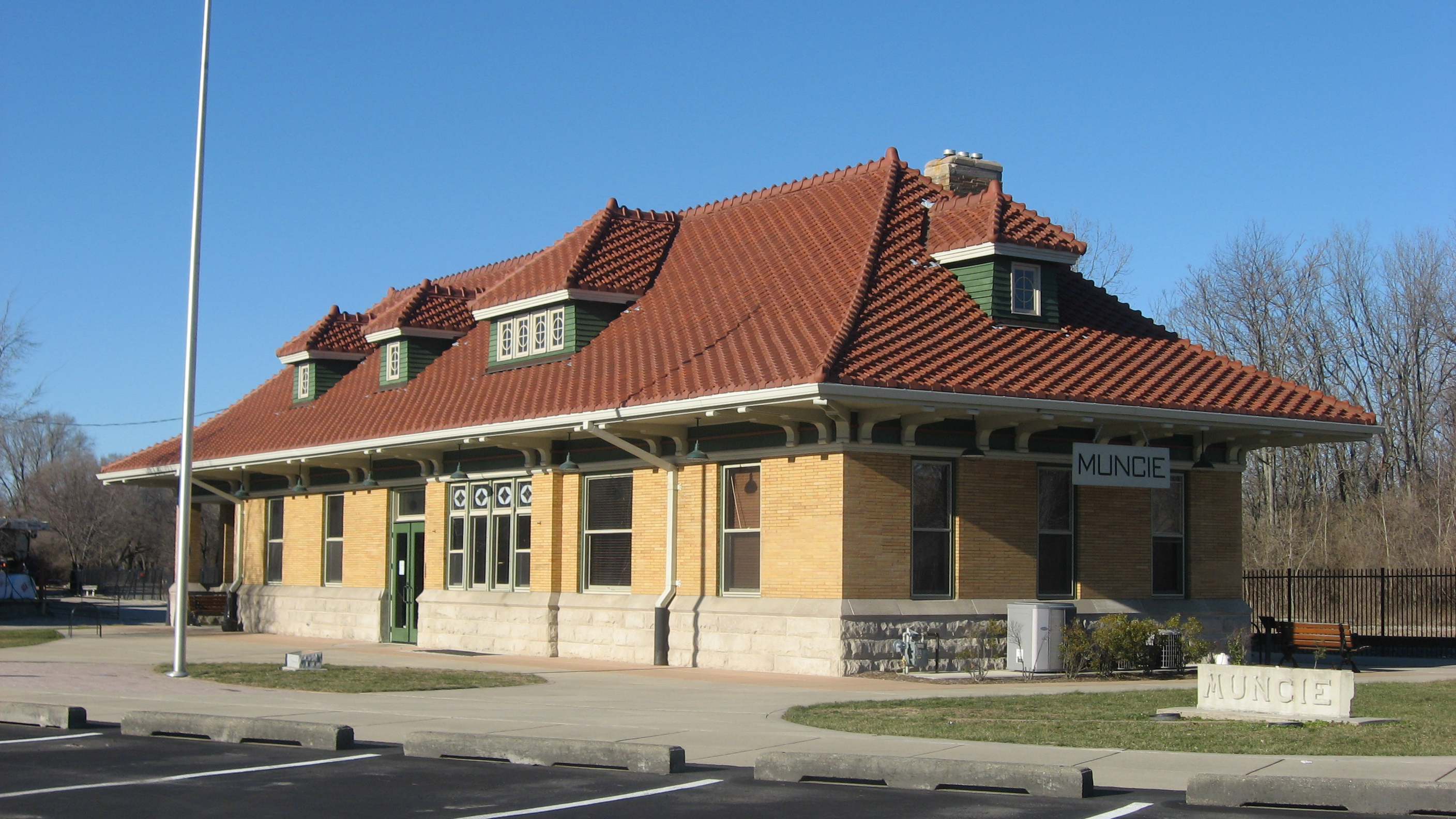 Front and eastern end of the Cincinnati, Richmond, & Muncie Depot, located just northwest of the junction of Wysor and Vine Streets in Muncie, Indiana, United States. Built in 1901, it is listed on the National Register of Historic Places.